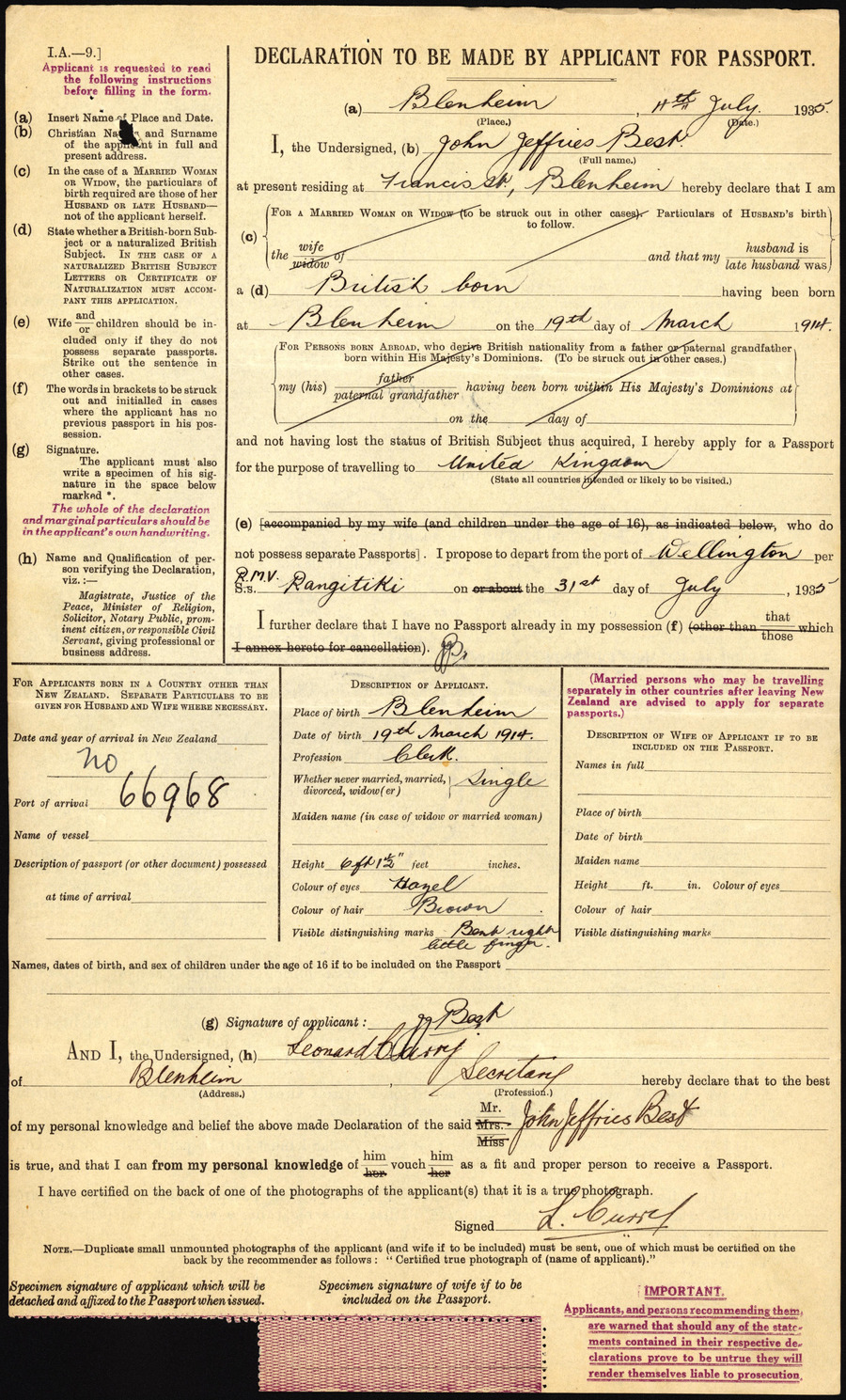 Archives New Zealand Reference: ACGO 8333 IA1 1350 / 15/11/59182